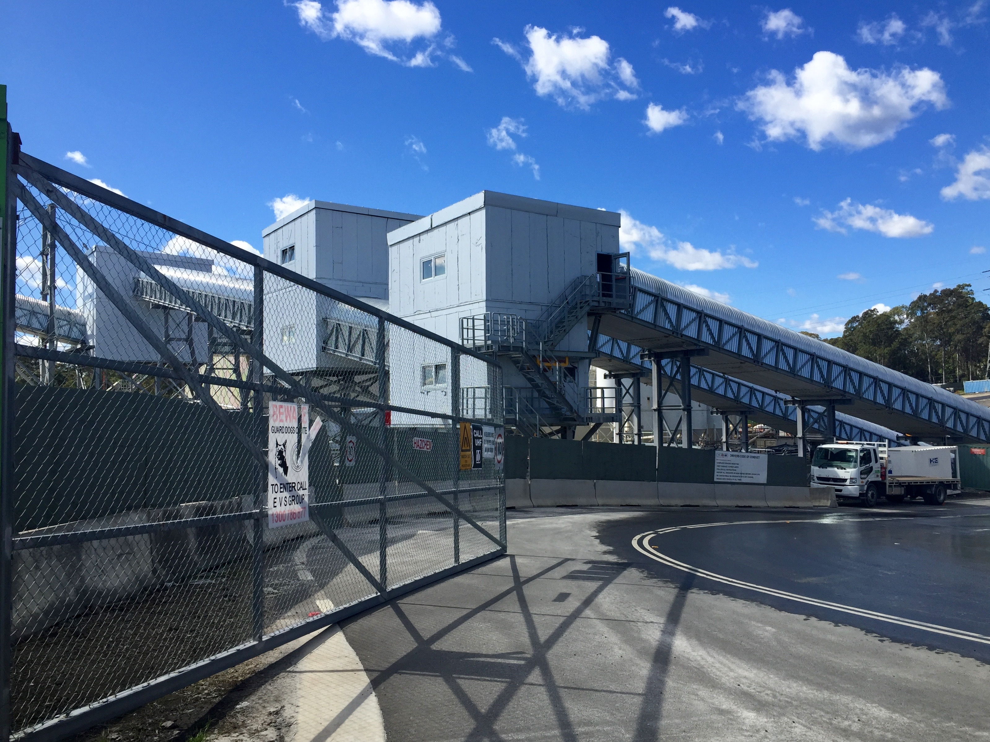 Sydney Metro Cherrybrook Station worksite, viewed from Castle Hill Road, August 2015